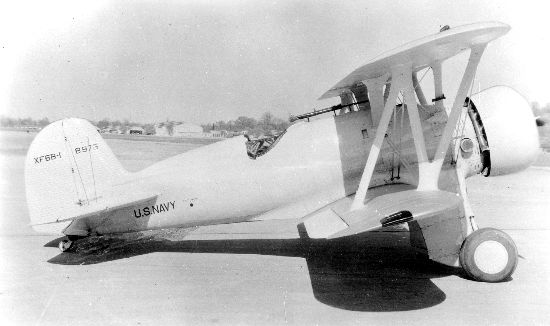 Boeing XF6B-1, later redesignated XBFB-1.